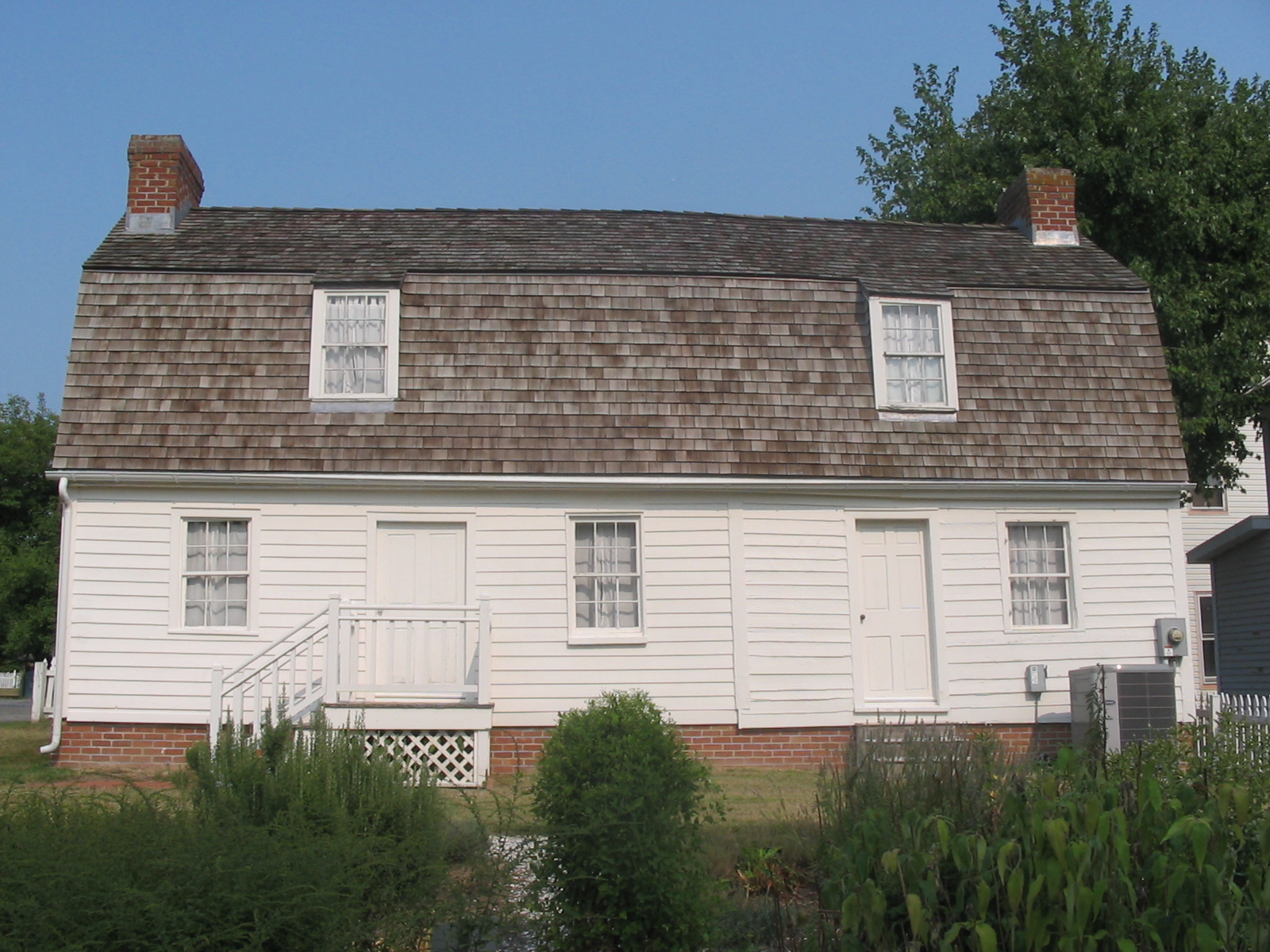 Stevensville, Maryland, August, 2007